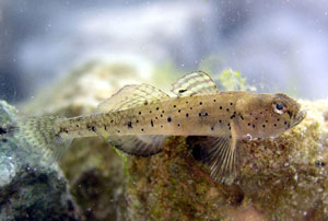 picture of Pomatoschistus canestrinii